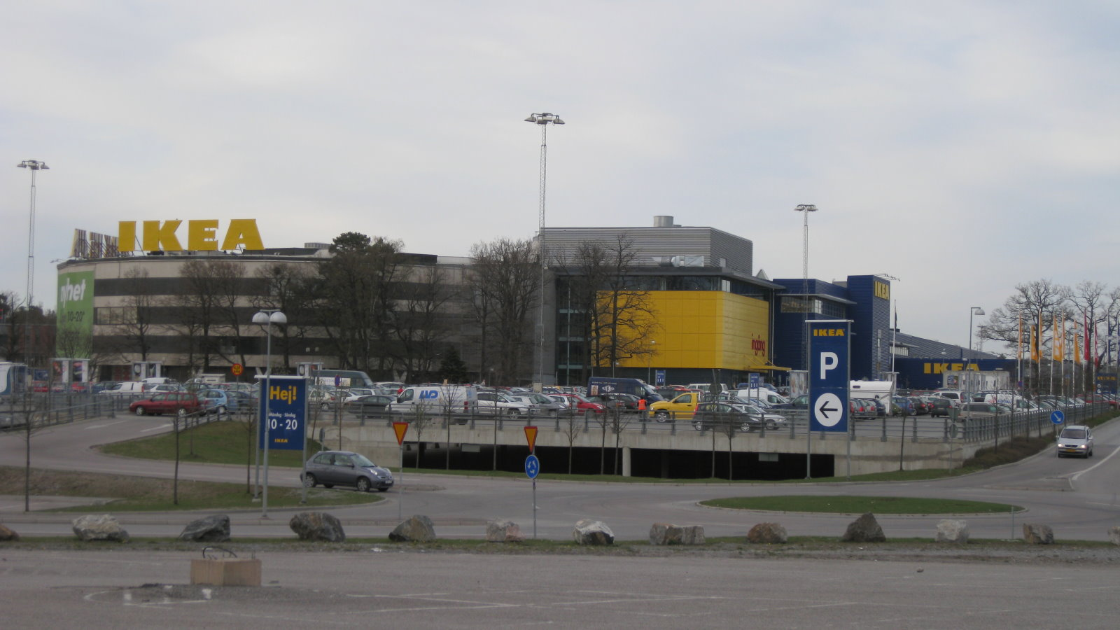 biggest IKEA of the world - Stockholm - Sweden